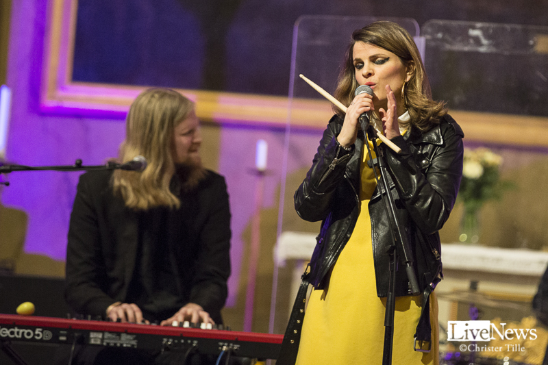 Singer - Tilde - in live concert.